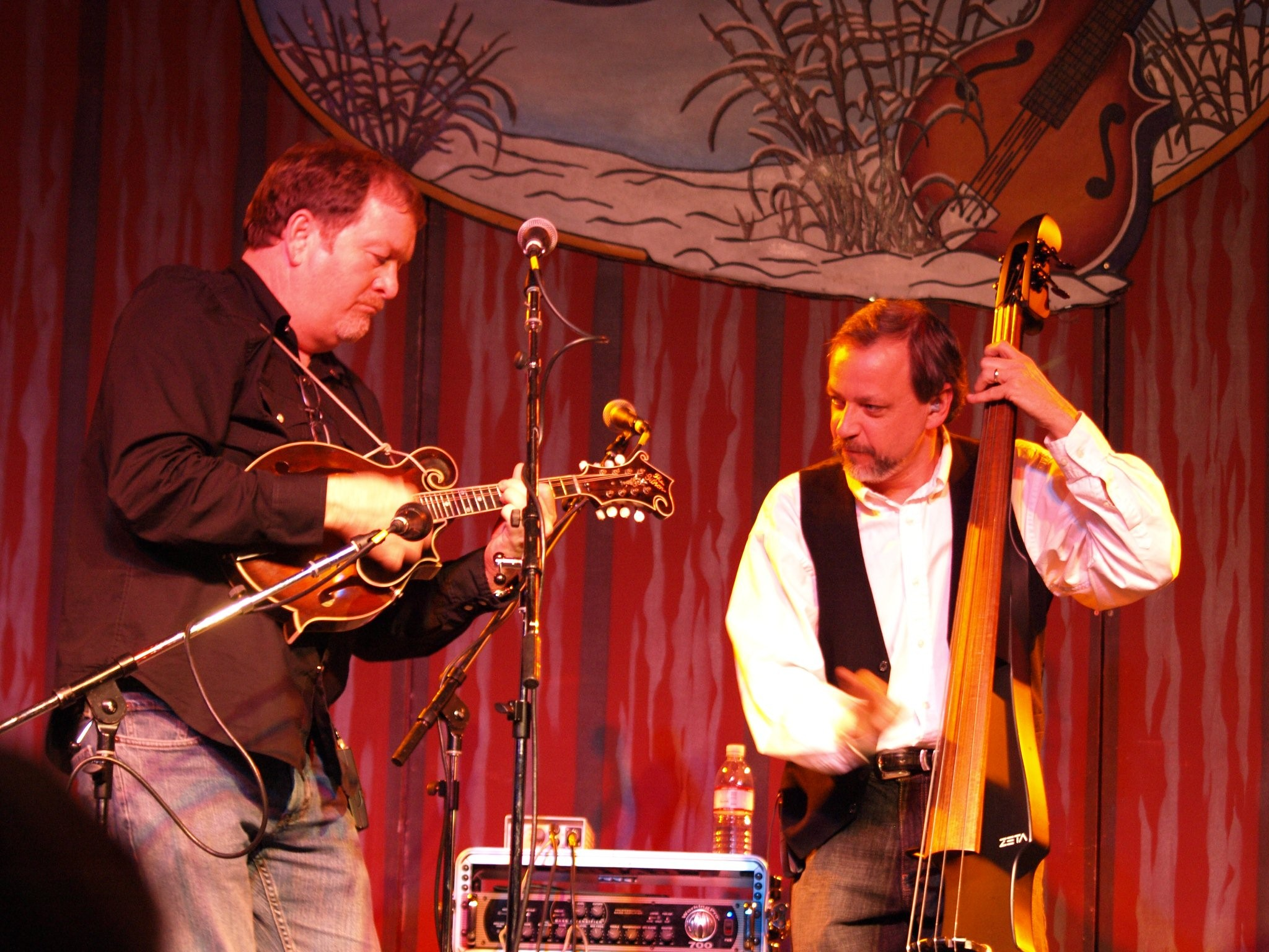 Lou Reid, Ronnie Simpkins, Wintergrass 2008